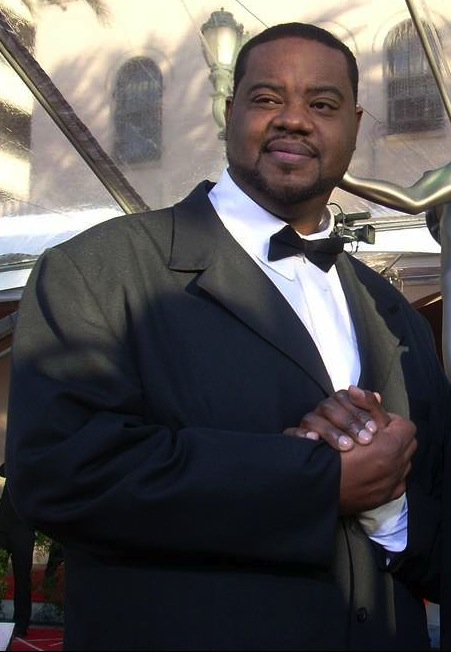 Actor Grizz Chapman, star "30 Rock", at the 15th Screen Actors Guild Awards